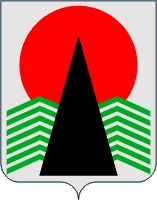 Coat of Arms of Nefteyugansky rayon (Khanty-Mansyisky AO)